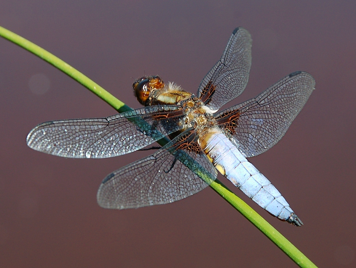 Broad-bodied Chaser (a dragonfly) Libellula depressa (Male).